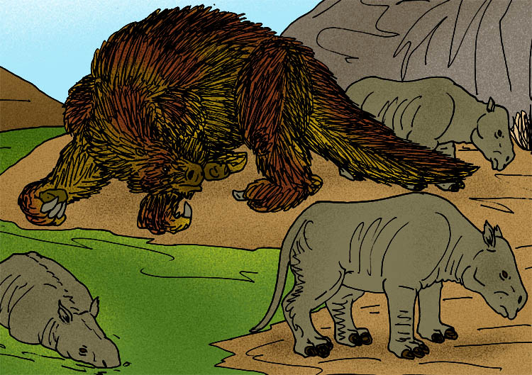 Reconstruction of the Miocene megatherine ground sloth, Promegatherium nanum with the sheep-sized toxodont Nesodon (C) Stanton F. Fink